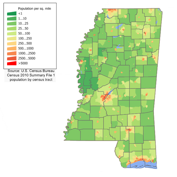 Population map of Mississippi, updated with 2010 census data